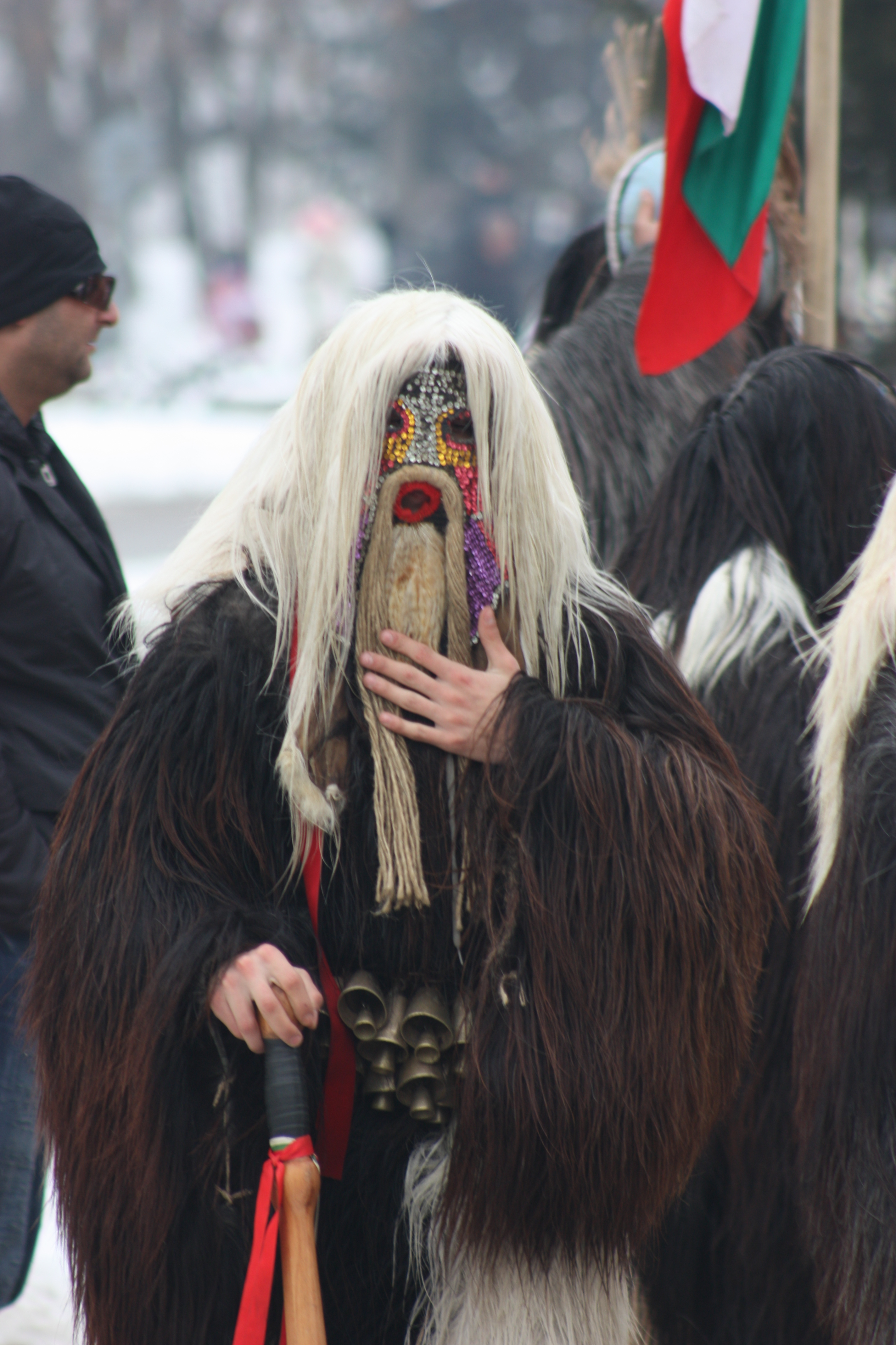 A kuker dancer from Burgas prepares for his performance at the XIX Kukers' Festival in Pernik, Bulgaria